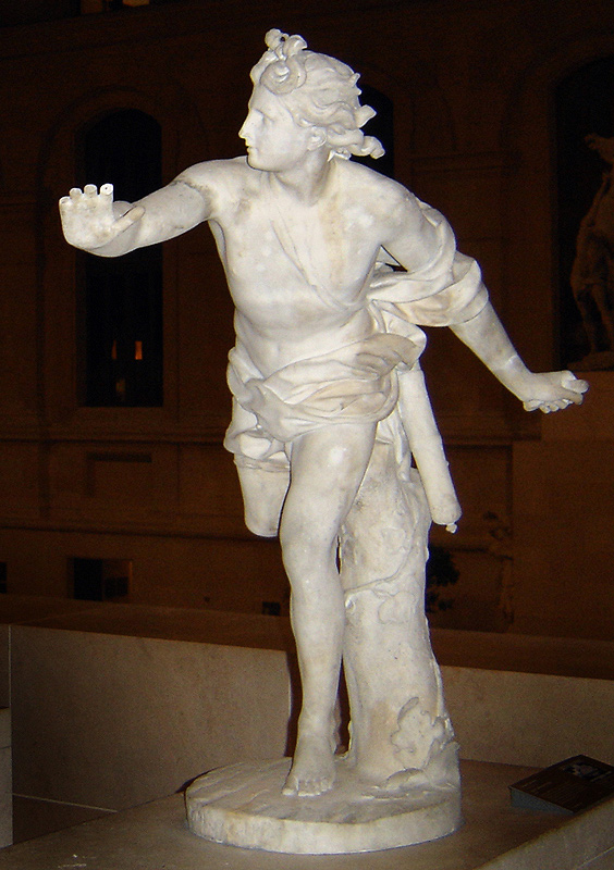 Daphne chased by Apollo. Marble, ca. 1713-1714.